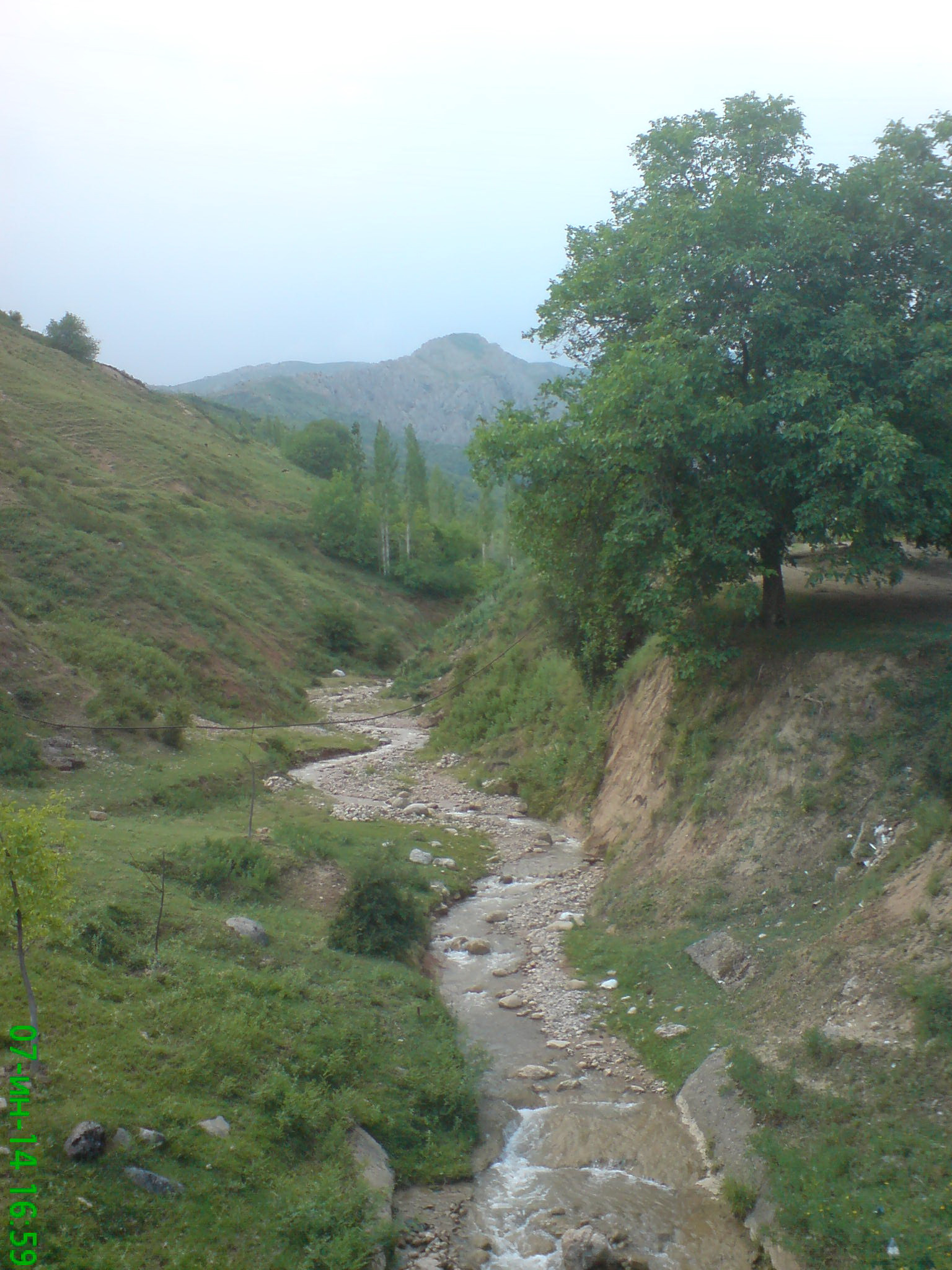 Sijjak Say river in Sijjak